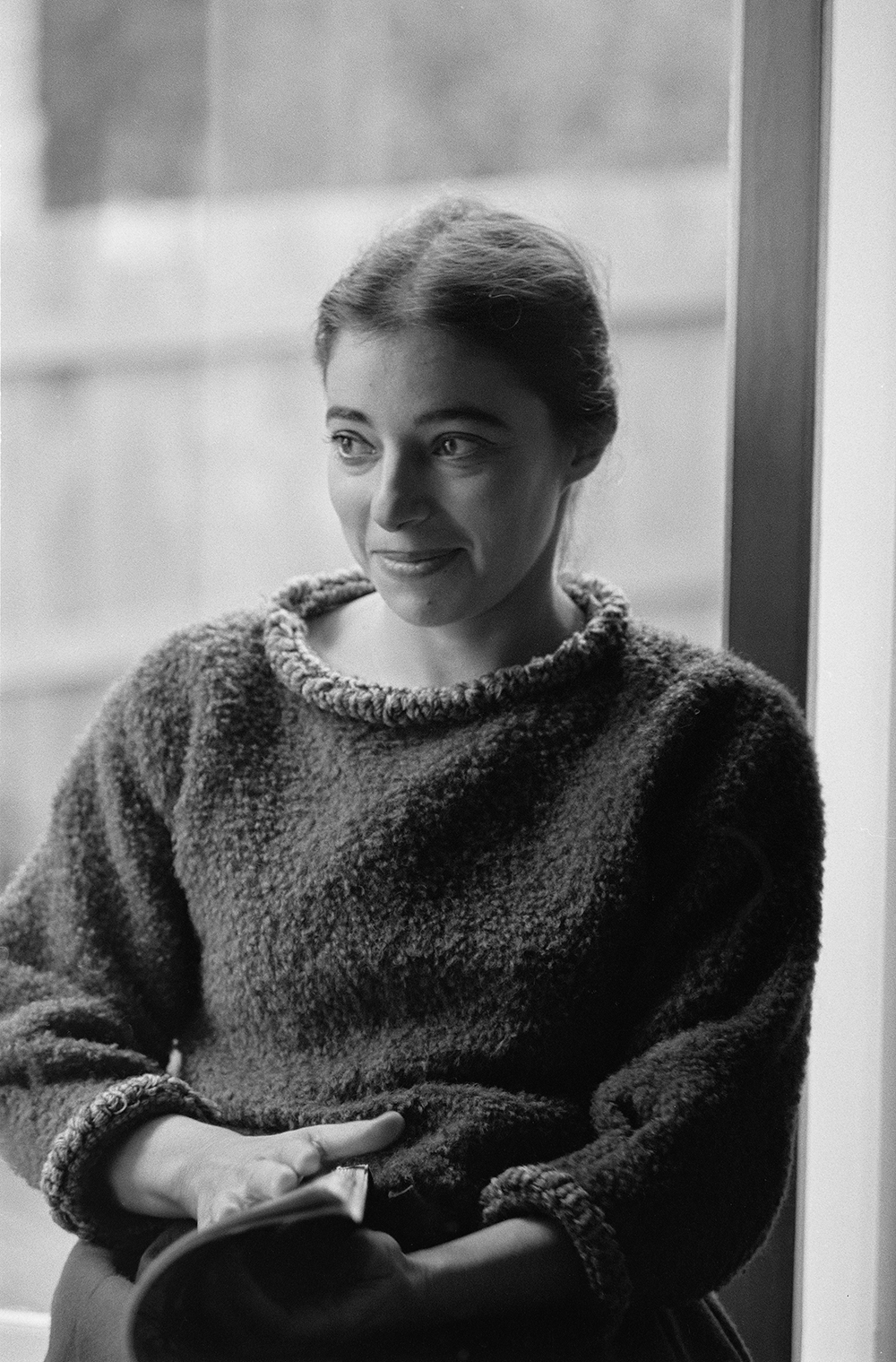 Portrait of the Australian artist Mirka Mora by J. Brian McArdle (1920-1969) taken in Beamaris May 28, 1961 when she visited the McArdle residence with husband Georges, Albert Tucker and Laurence Hope.